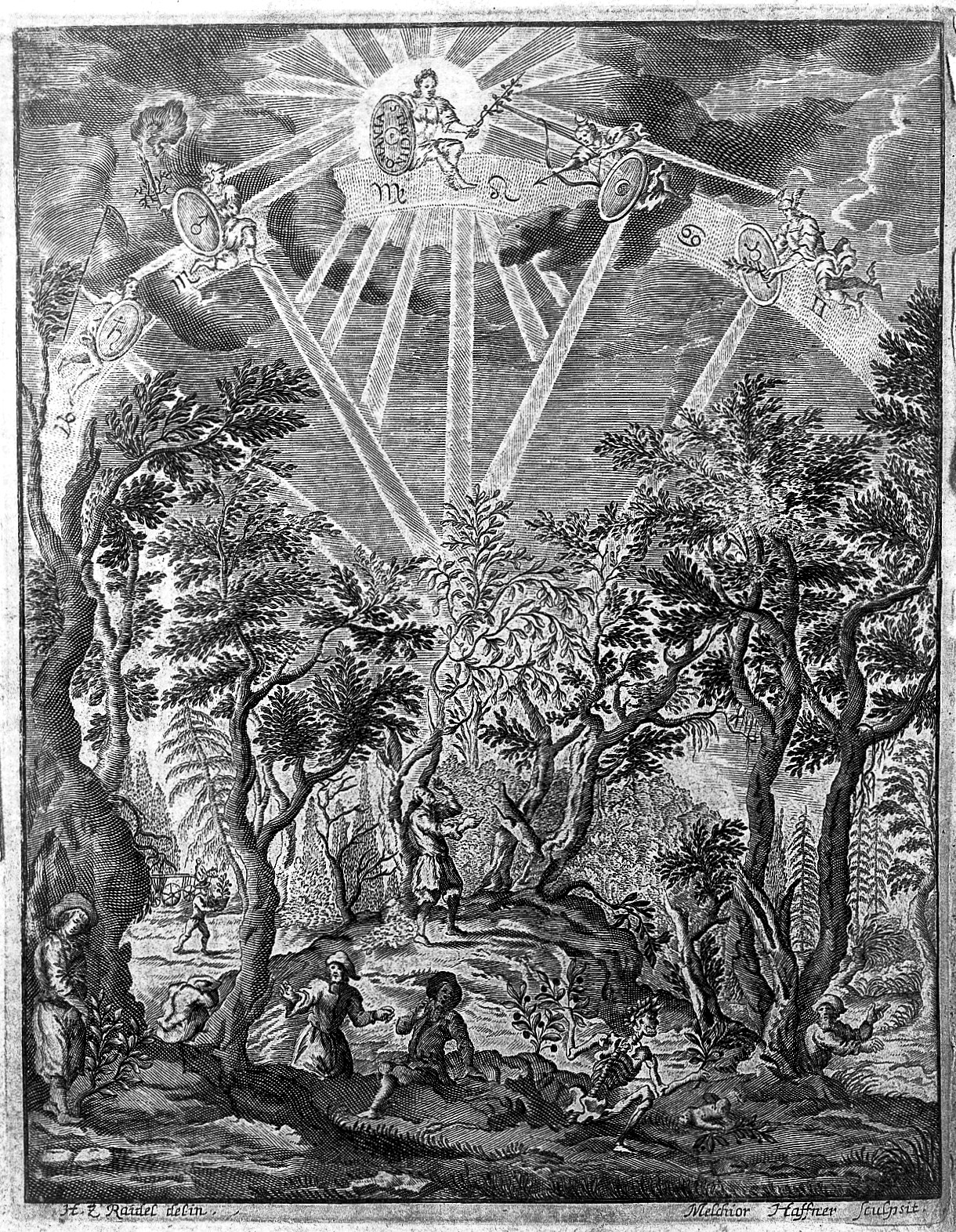 Planets instilling posionous qualitites into atropa belladonna, and a man suffering madness from having eaten it Rare BooksKeywords: toxins; Atropa belladonna; Antitoxins; Poisons; Johann Matthias Faber